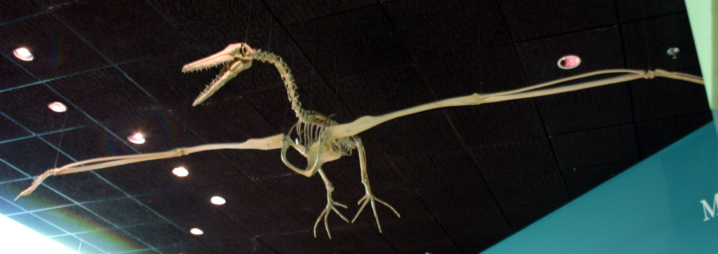 Replica of a Pelagornis skeleton at the NMNH.